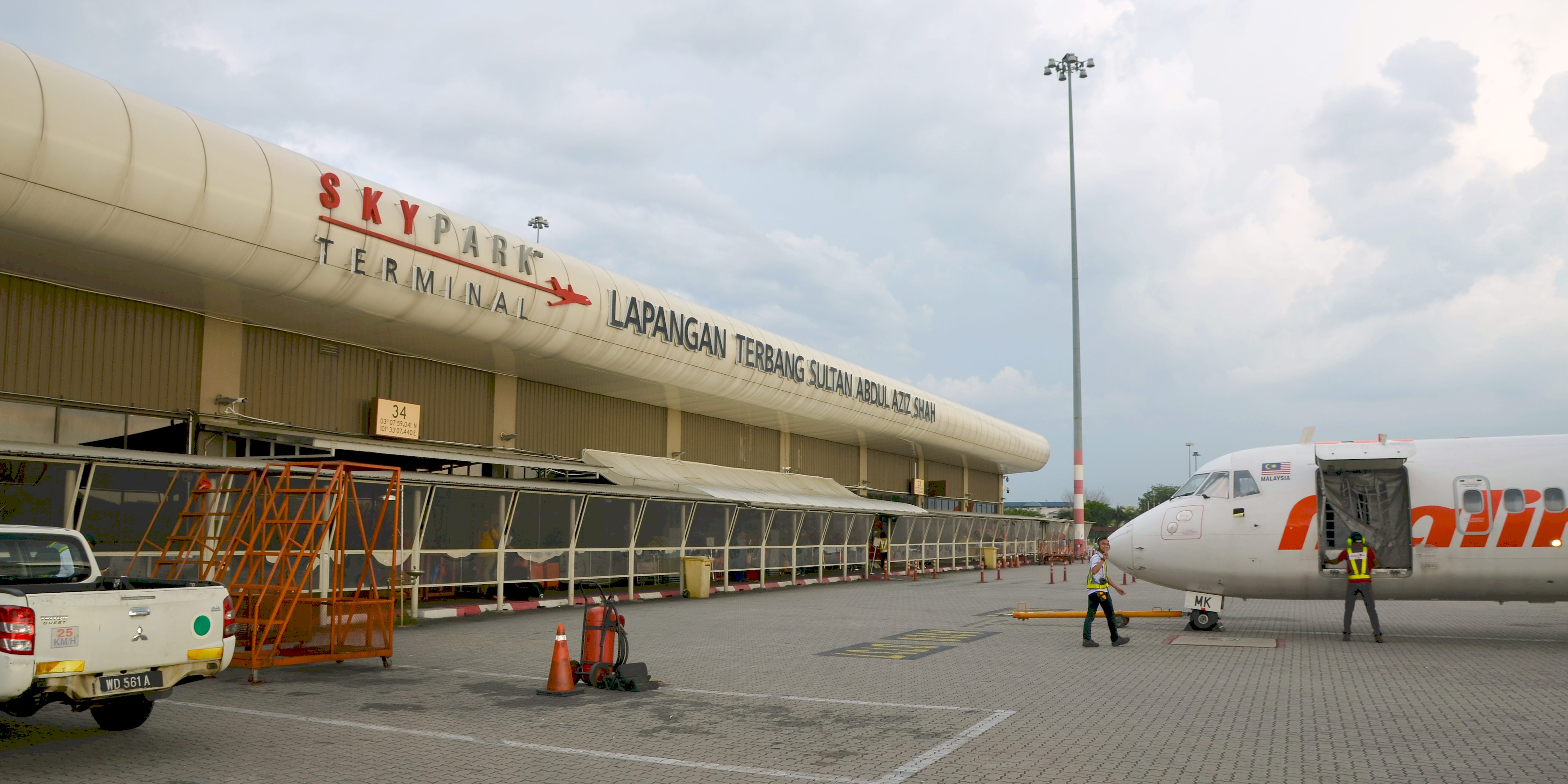 A Malindo Air plane at the Skypark Terminal of the Sultan Abdul Aziz Shah Airport.